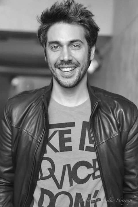 Picture part of my portfolio